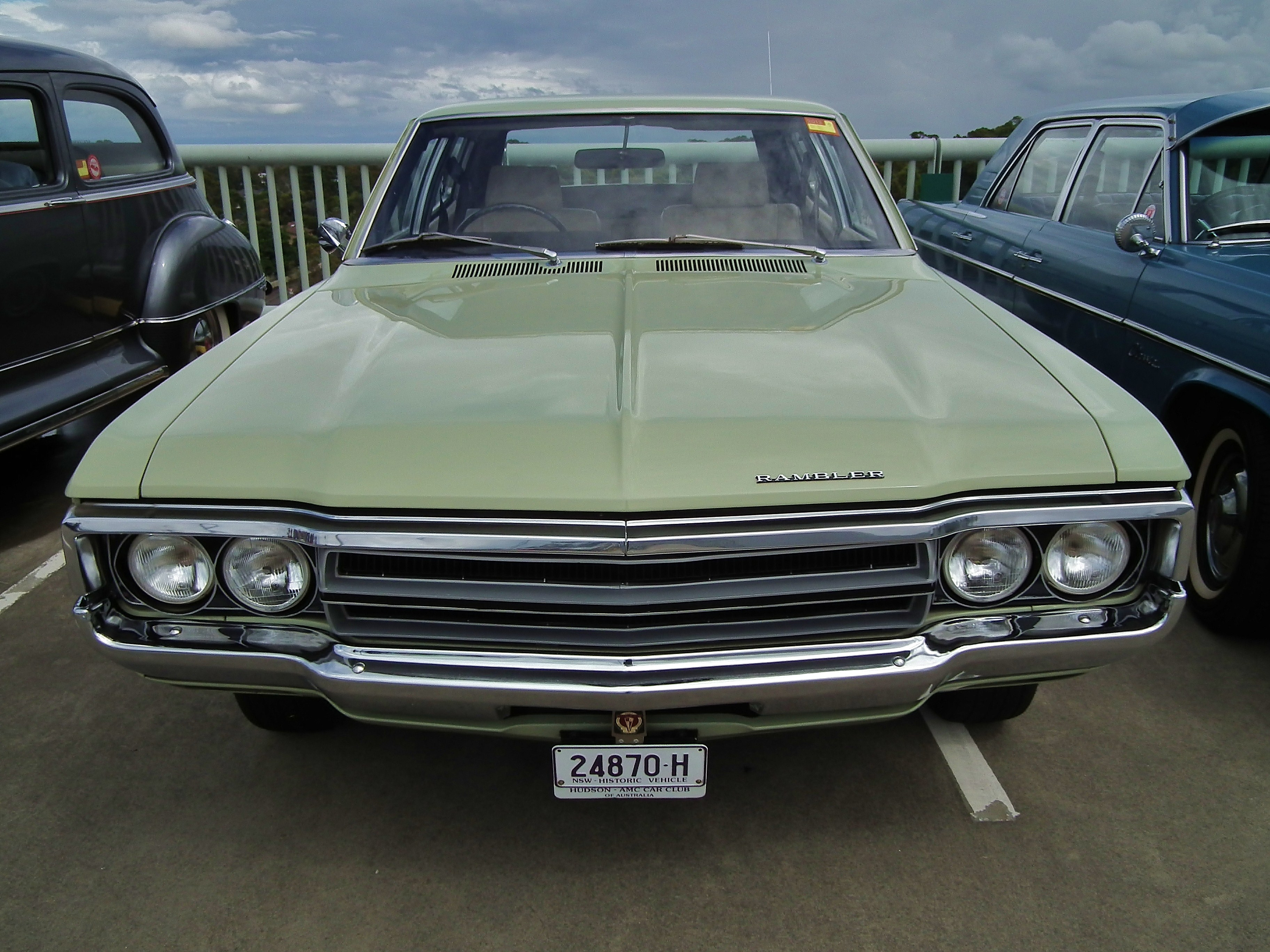 1972 Rambler Matador 360 sedan. Australian assembled. Taken at the 2012 New South Wales All American Day, held at Castle Towers Shopping Centre, Castle Hill, Sydney.